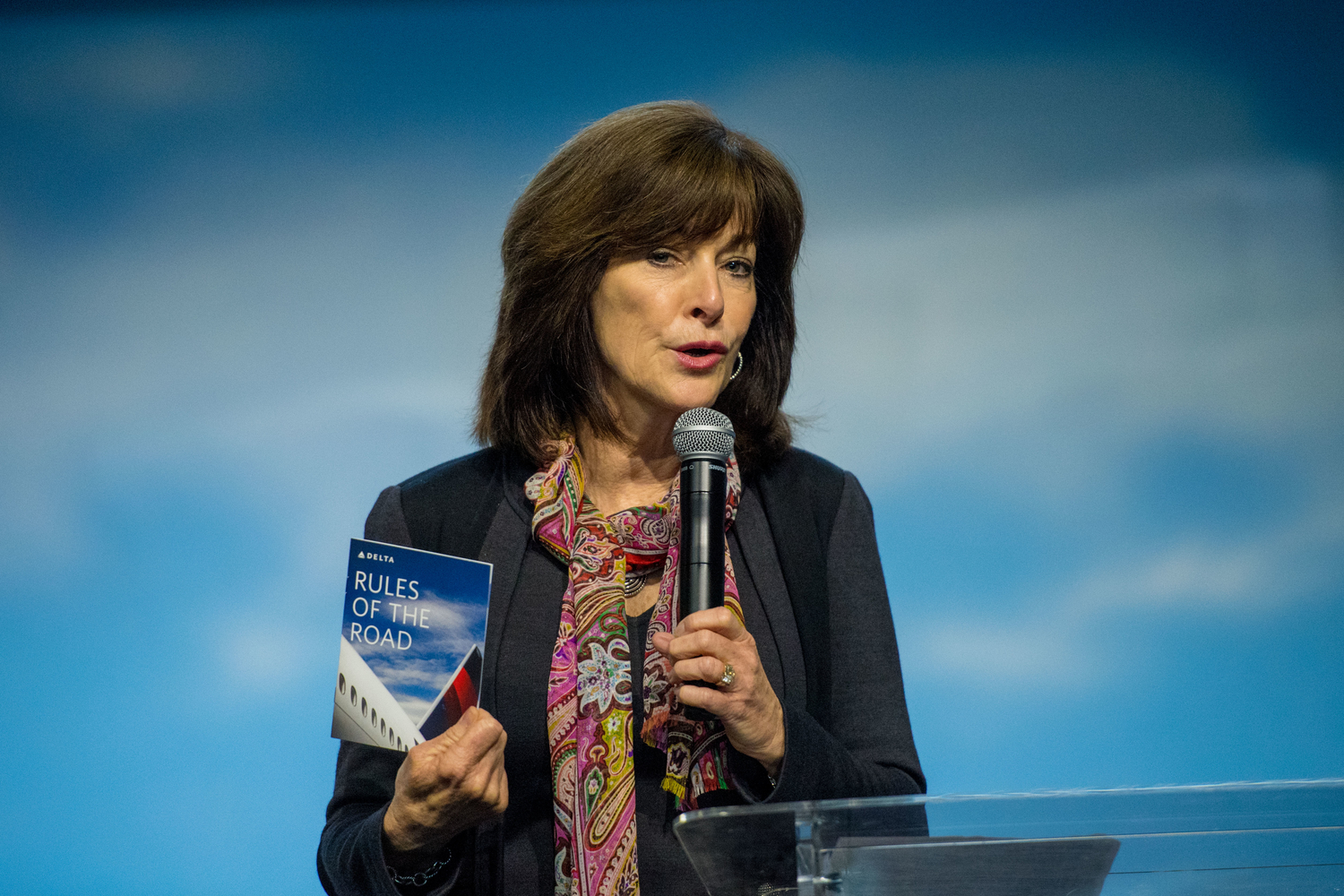 Joanne Smith, E.V.P. and Chief Human Resource Officer